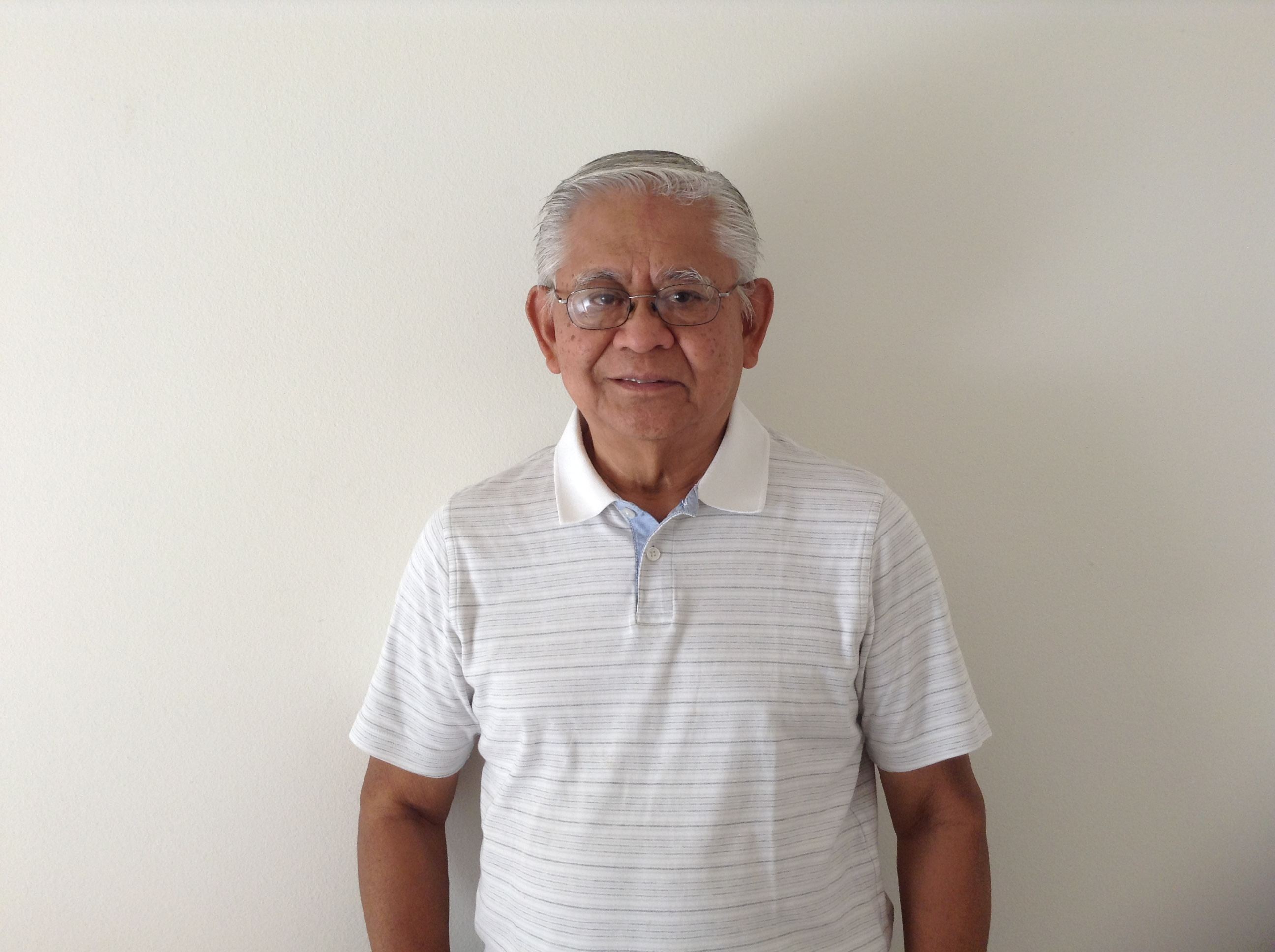 Photo of Oscar H Ibarra